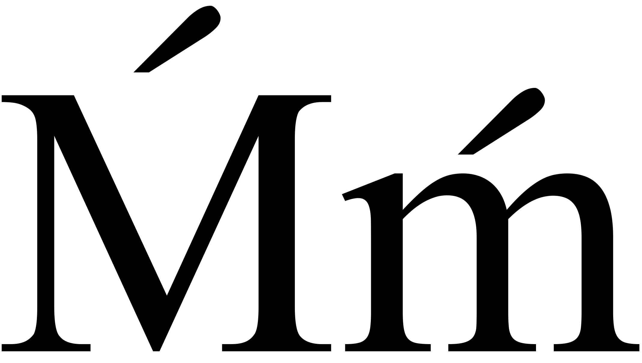 M with acute in Doulos SIL